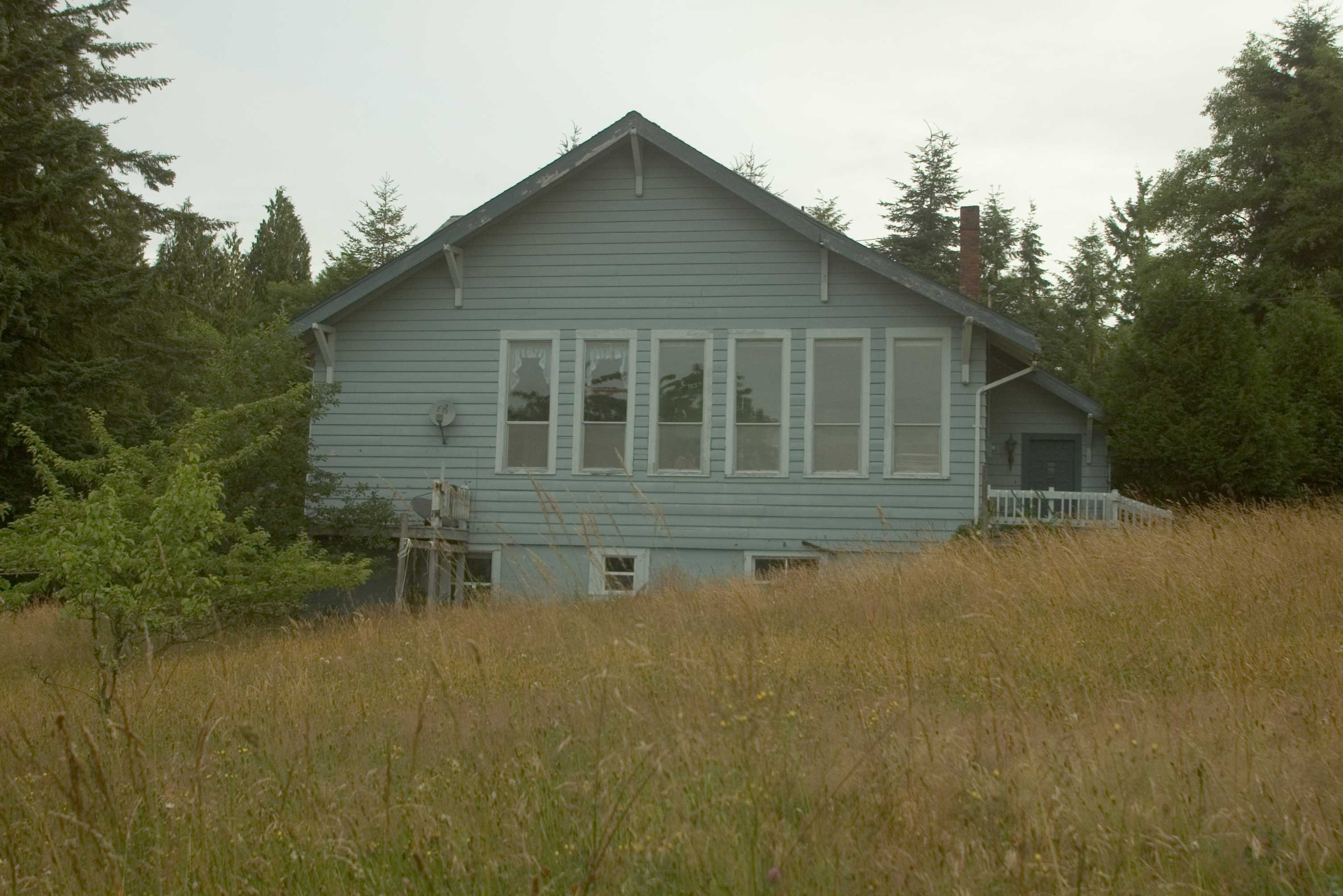 Apiary School Building in 2007 approximately 40 years after it ceased being used as a school Apiary School Building in 2007 approximately 40 years after it ceased being used as a school